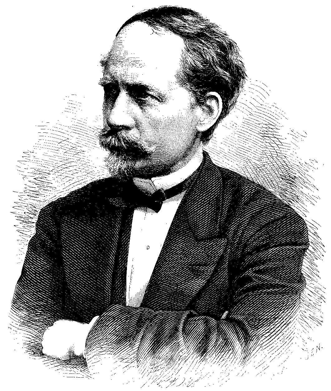 Danish architect Ferdinand Meldahl